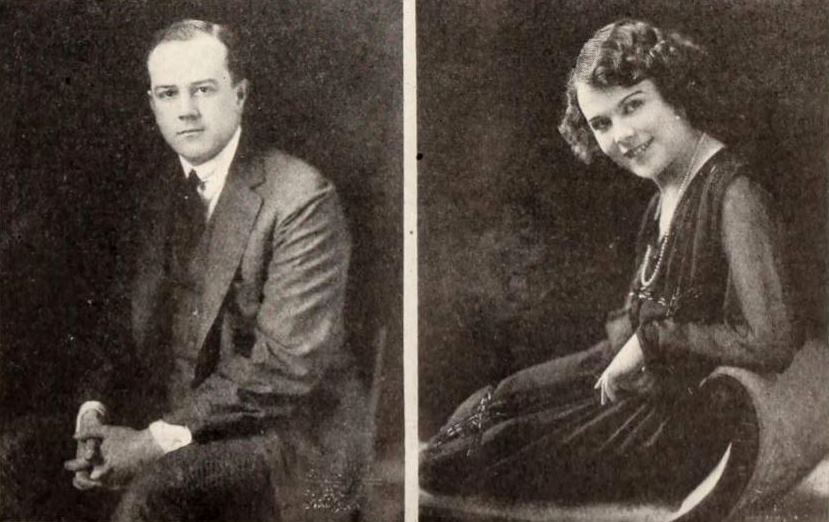 Filmmakers Martin and Osa Johnson, on page 29 of the April 5, 1919 Exhibitors Herald.